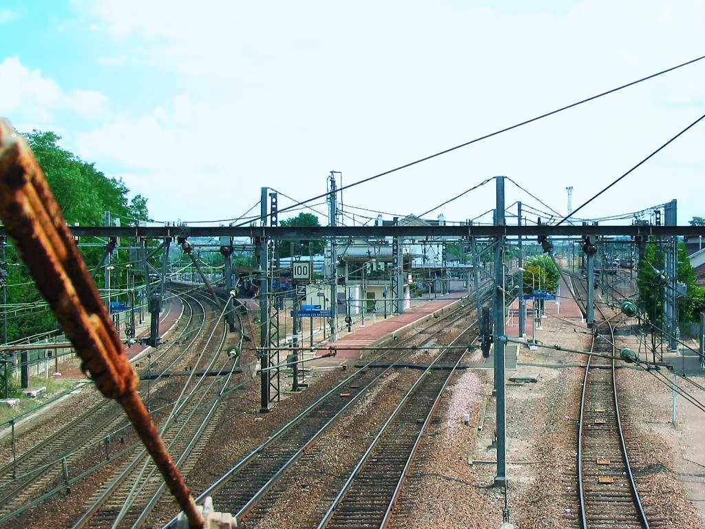 Moret-Veneux-les-Sablons train station, Seine-et-Marne, France : the tracks seen coming from Paris.